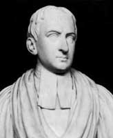 Portrait of Roger Cotes (1682-1716)